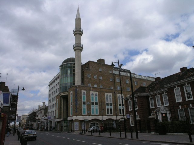 Haggerston Mosque. Haggerston Mosque, with its distinctive minaret.